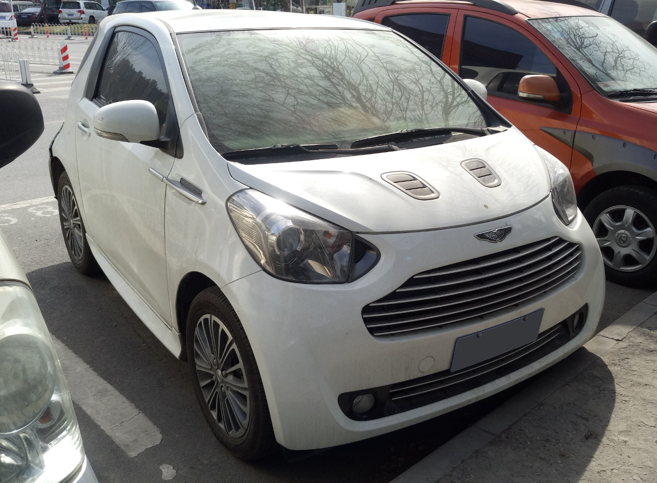 Aston Martin Cygnet photographed in Beijing, China.